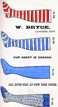 Images of baseball socks, from Bryce's Base Ball Guide, 1876